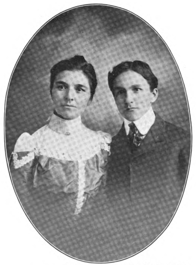 Matilda "Tillie" Kinnon Paul Tamaree and her son William Paul, circa 1902.